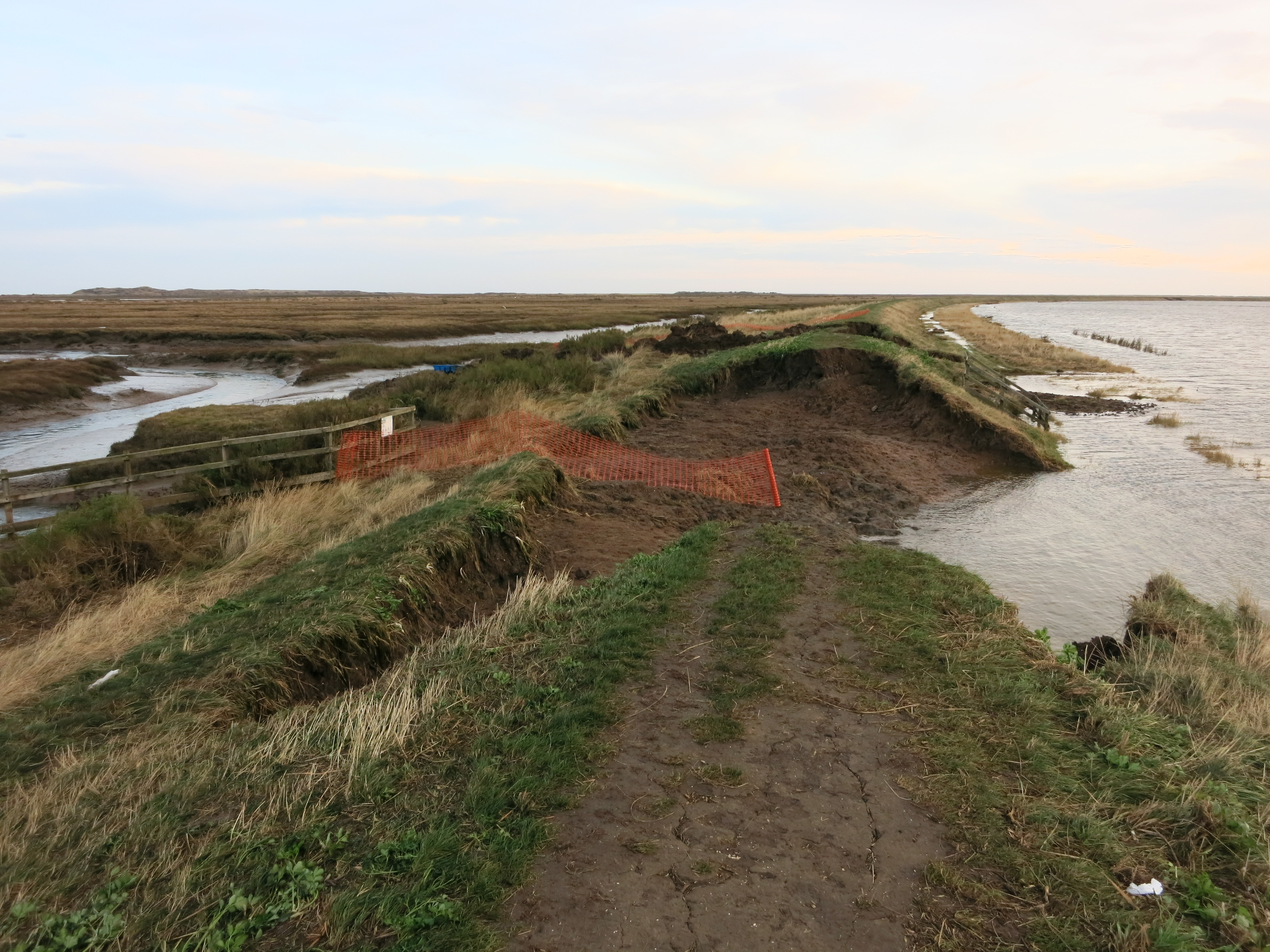 Burnham Norton sea wall breached